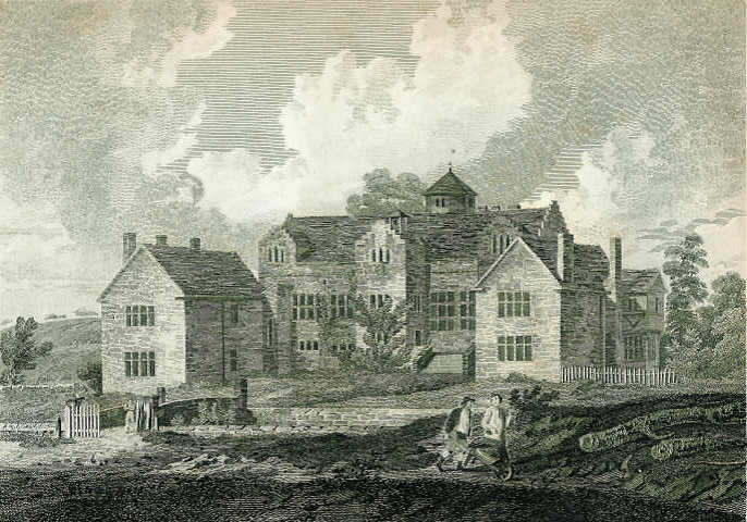 An engraving of Harden Hall, Bredbury, Greater Manchester, dated 1794. The modern name is Arden Hall. I scanned this image at 75 dpi. The original is about 6 inches across.